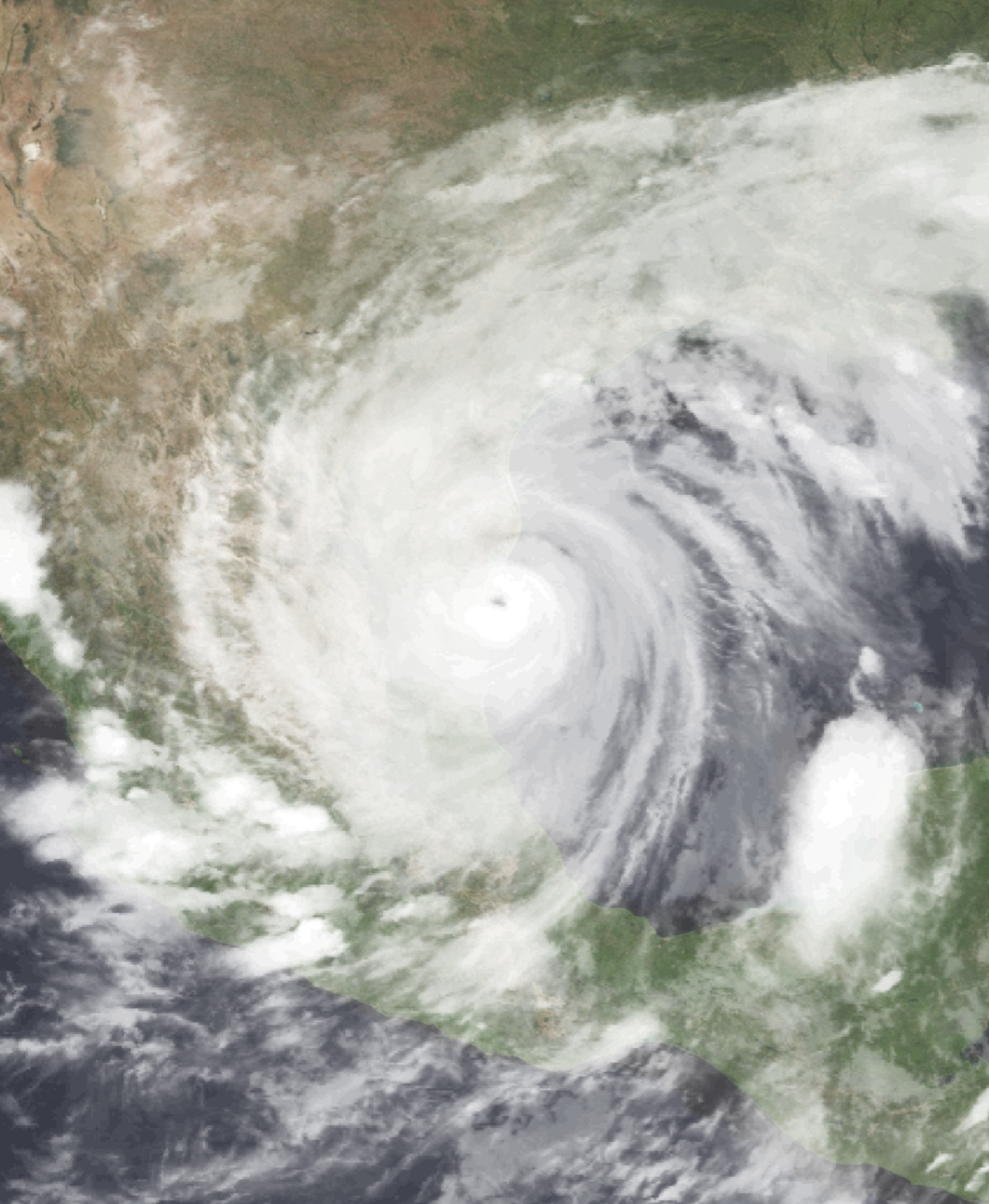 Hurricane Alex making landfall in Mexico at peak intensity on July 1